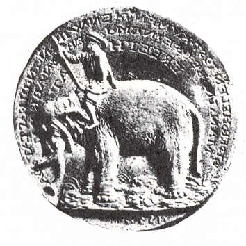 first documented elephant in Vienna; commemorative medal